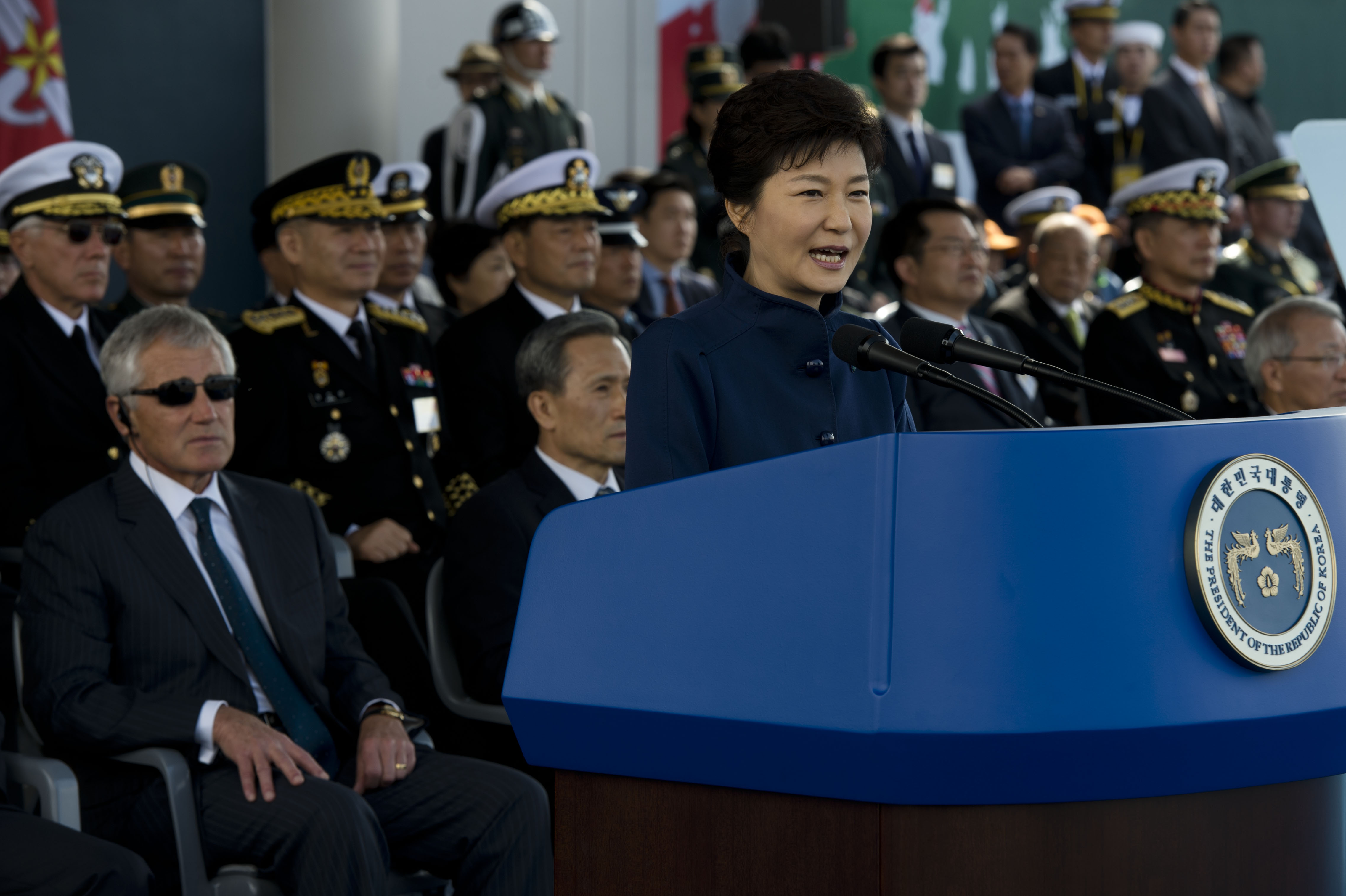 Secretary of Defense Chuck Hagel visits Seoul, Republic of Korea October 1, 2013. Hagel attended a military parade to commemorate the anniversary of the ROK-U.S. Alliance as well as meeting with ROK Minister of Defense. Photo by Erin A. Kirk-Cuomo